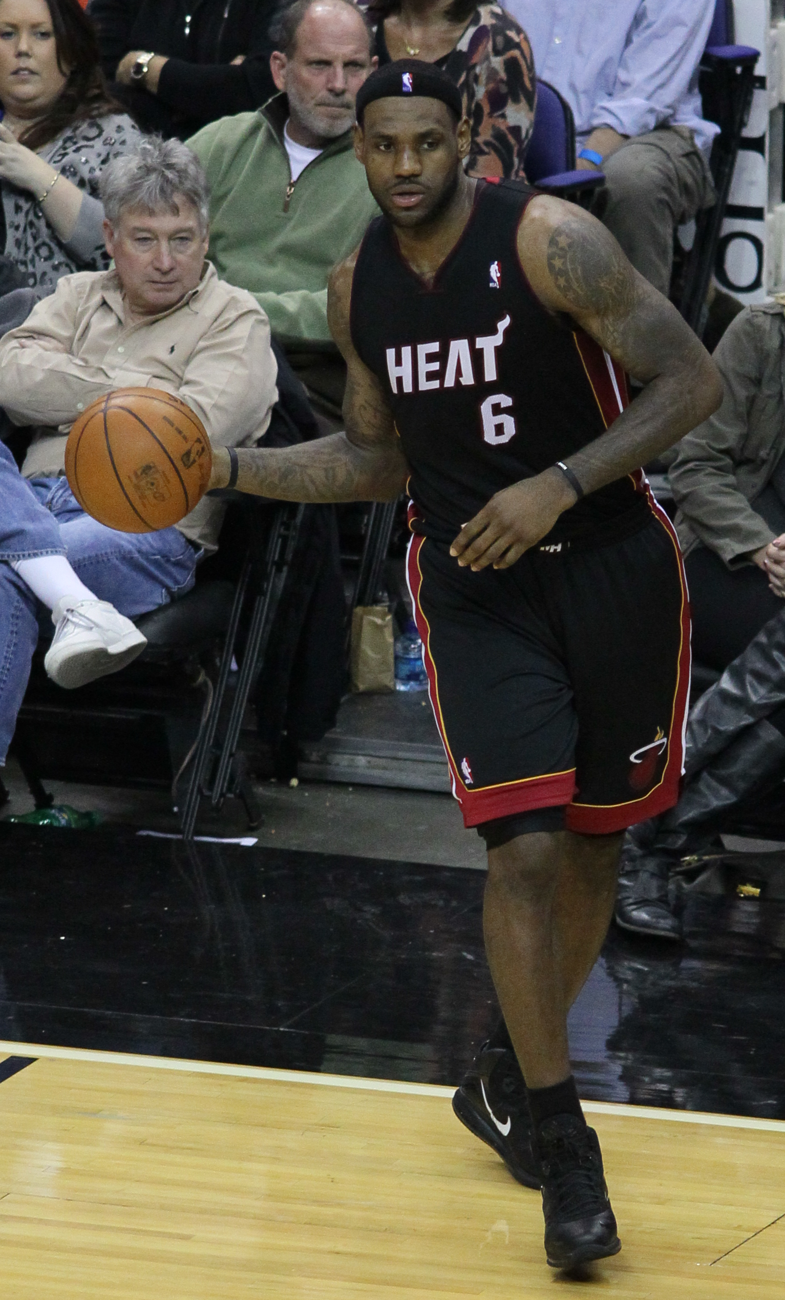 Lebron James: Washington Wizards v/s Miami Heat December 18, 2010